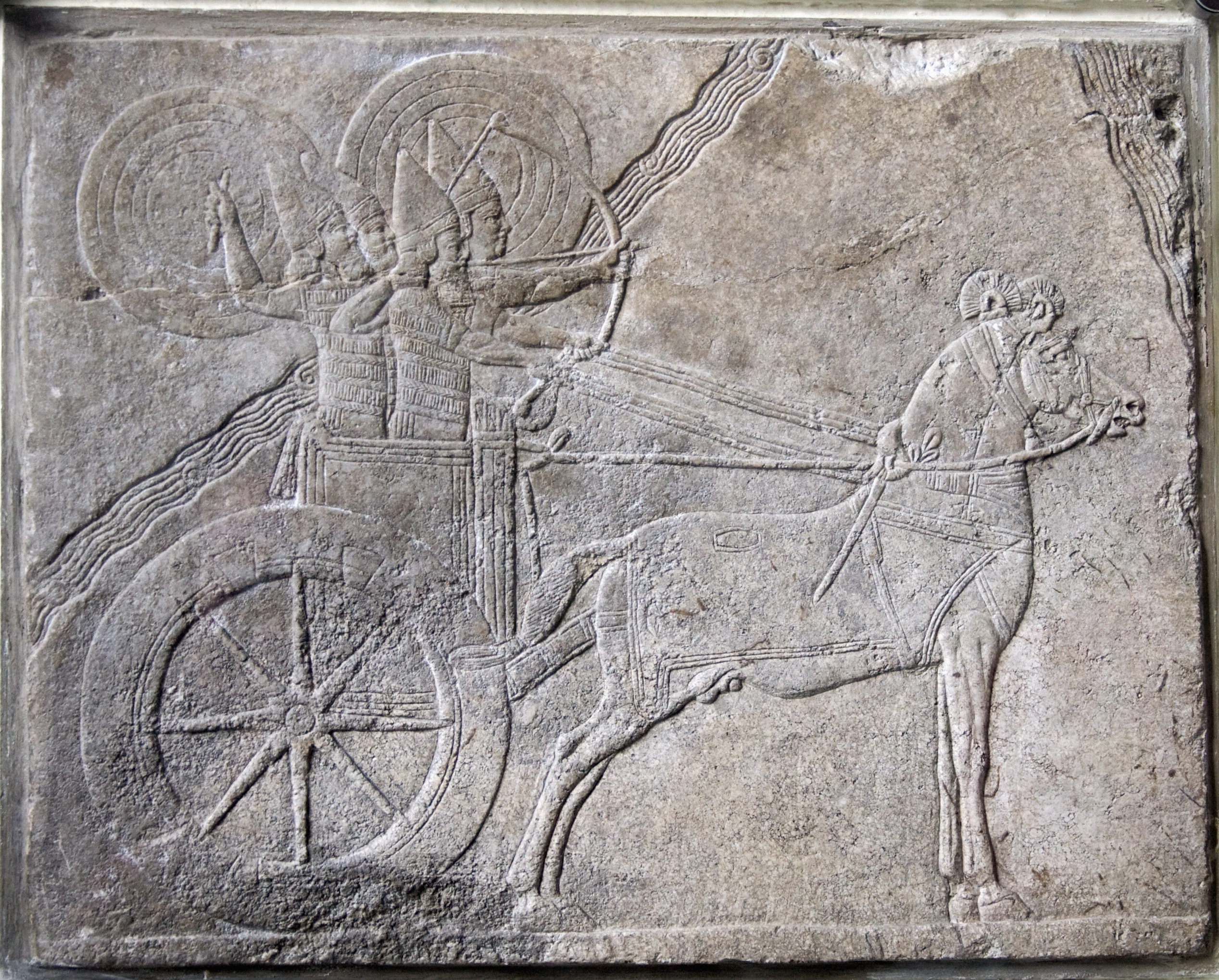 Assyrian relief from Nineveh, now in the Pergamon Museum, Berlin. Alabaster relief, made about 650 BC. Tag accompaningy the exhibit states: "This small sized representation which might depict a scene from Ashurbanipal (668-627 BC) campaign against the Elamite city Hamaru, shows an Assyrian chariot with charioteer and archer protected from enemy attack by shield bearers."